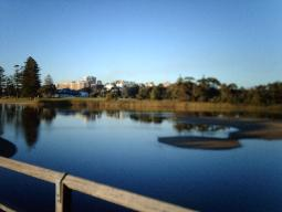 The lagoon at Puckeys Estate